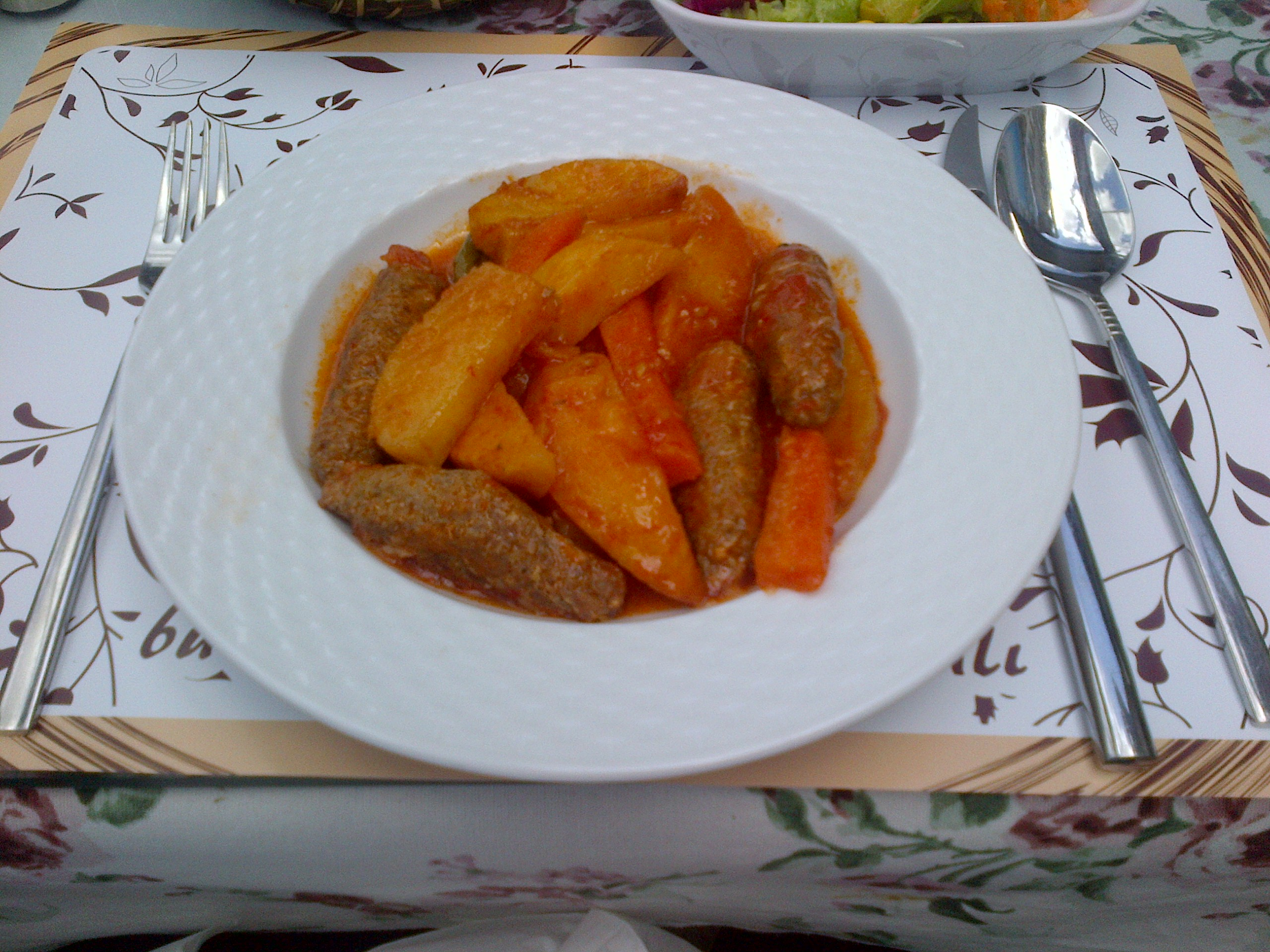 İzmir köfte, wrongly known in some neighbours of Turkey as "Sutzukàkia" as that refers to "sucuk köfte", another dish from the cuisine of Turkey.